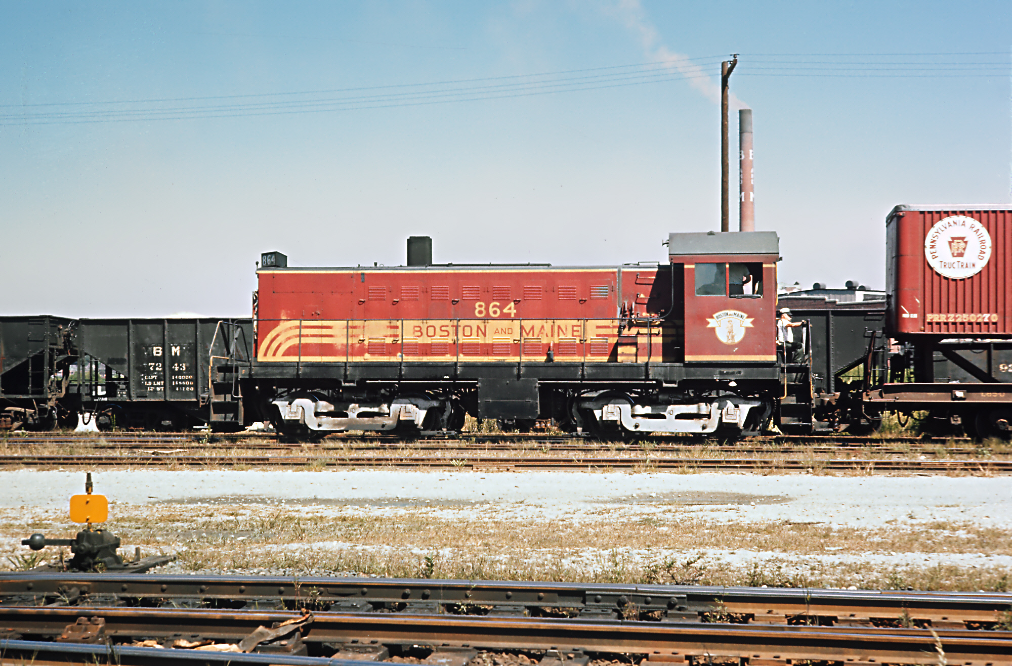 B&M S-5 #864 working the yard at North Station, Boston, on September 4, 1965. Number 864 is preserved at the Mad River & NKP RR Society in Bellevue, Ohio.